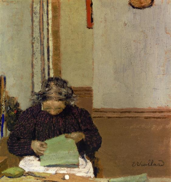 "Madame Vuillard Cousant," 1895 painting by French artist Edouard Vuillard.